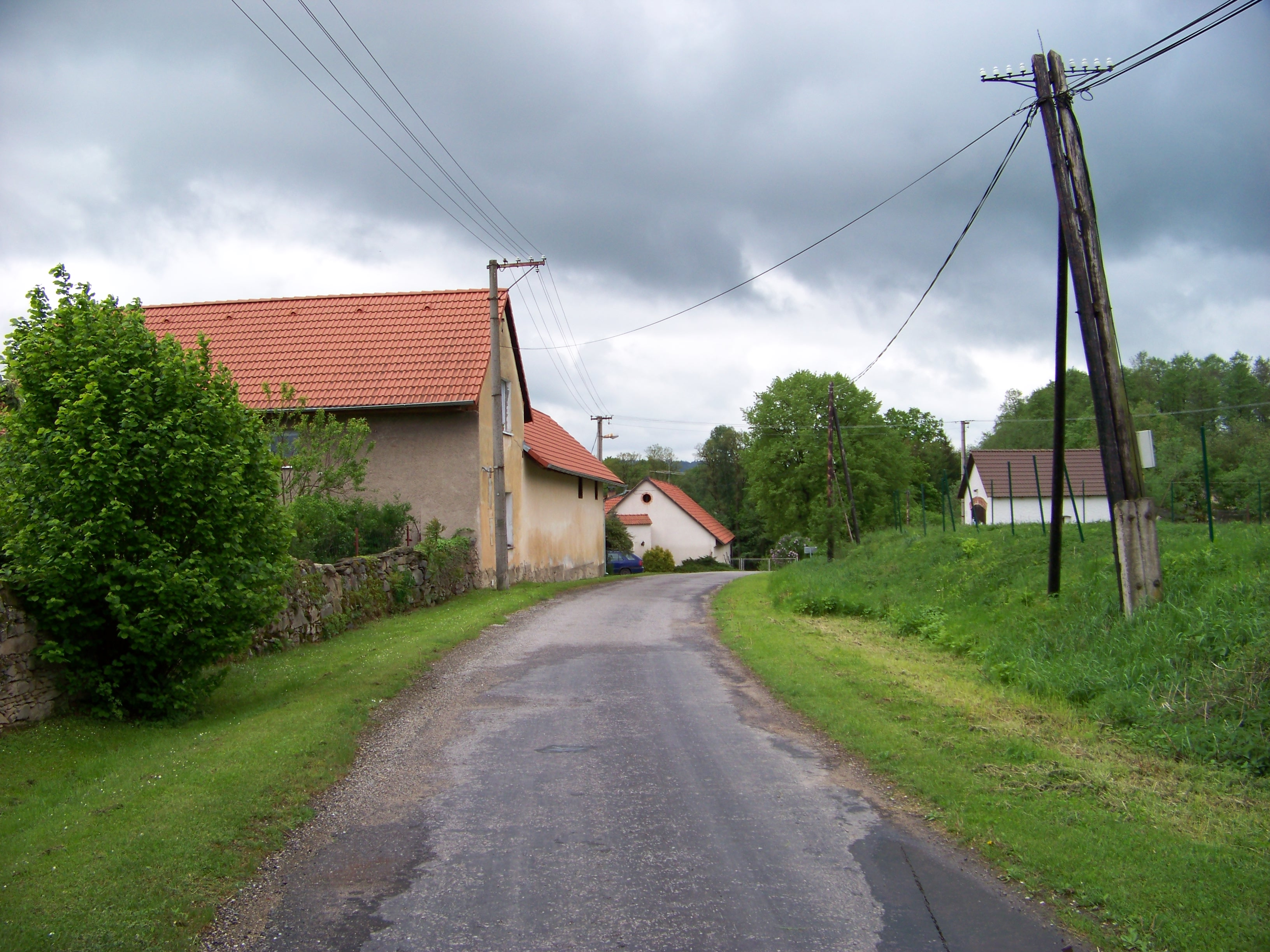 Vrchotovy Janovice-Manělovice, Benešov District, Central Bohemian Region, the Czech Republic. Houses No. 2, 1.